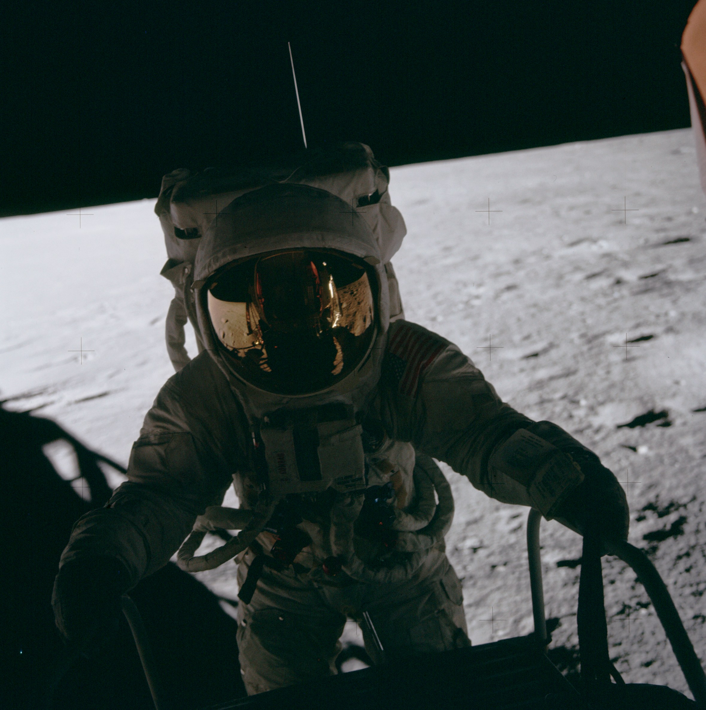 Apollo 12 commander Charles "Pete" Conrad prepares to descend the ladder of the Lunar Module to become the third human to walk on the Moon. Apollo 12, the second manned lunar landing, landed on the Ocean of Storms, near the Surveyor III probe. (Apollo 12, AS12-46-6718)